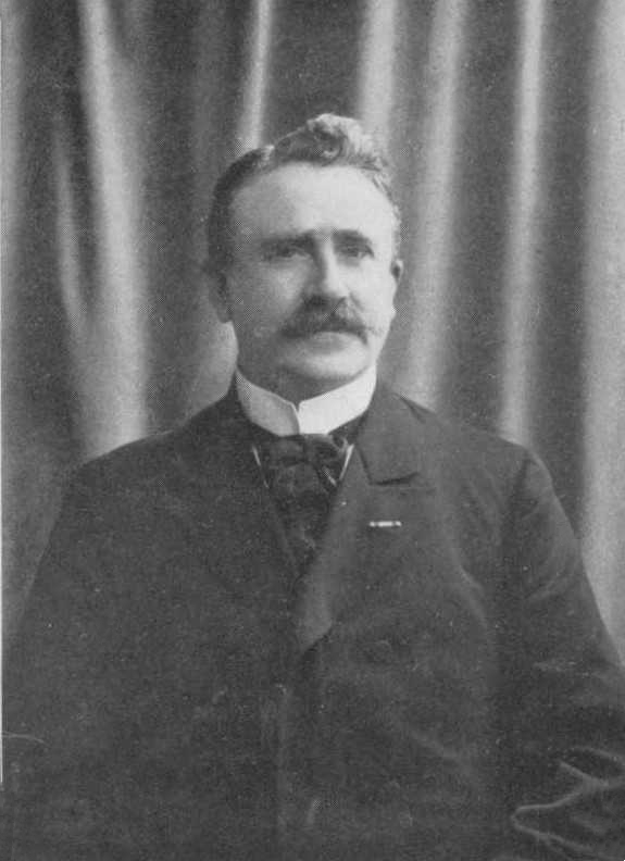 name EDO BERGSMA,. political affiliationLiberal Union